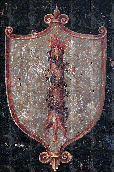 Painting of the coat of arms of the Miniscalchi noble family from northern Italy. Image at the predella of the altar of the Holy Spirit of the Cappella Miniscalchi in the church of Santa Anastasia in Verona. Painting done by Nicola Giolfino in 1518.File:Chiesa Santa Anastasia 07.jpg[1]